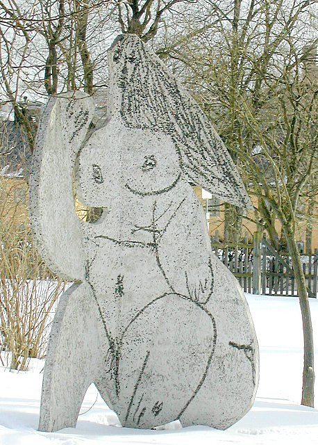 Dejeuner sur l'Herbe in sandblasted concrete, outside of the Moderna Museet in Stockholm